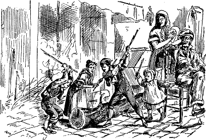 Children beating a Tió de Nadal to make it shit candy.